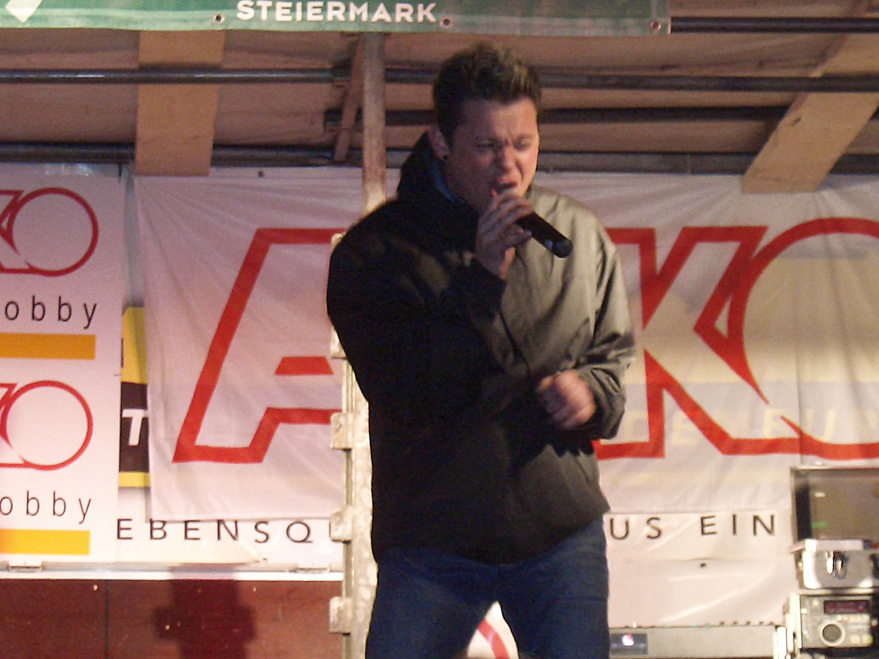 Gernot Pachernigg singing during the ceremony of skier Renate Götschl in Obdach, Styria on March 31st, 2007.